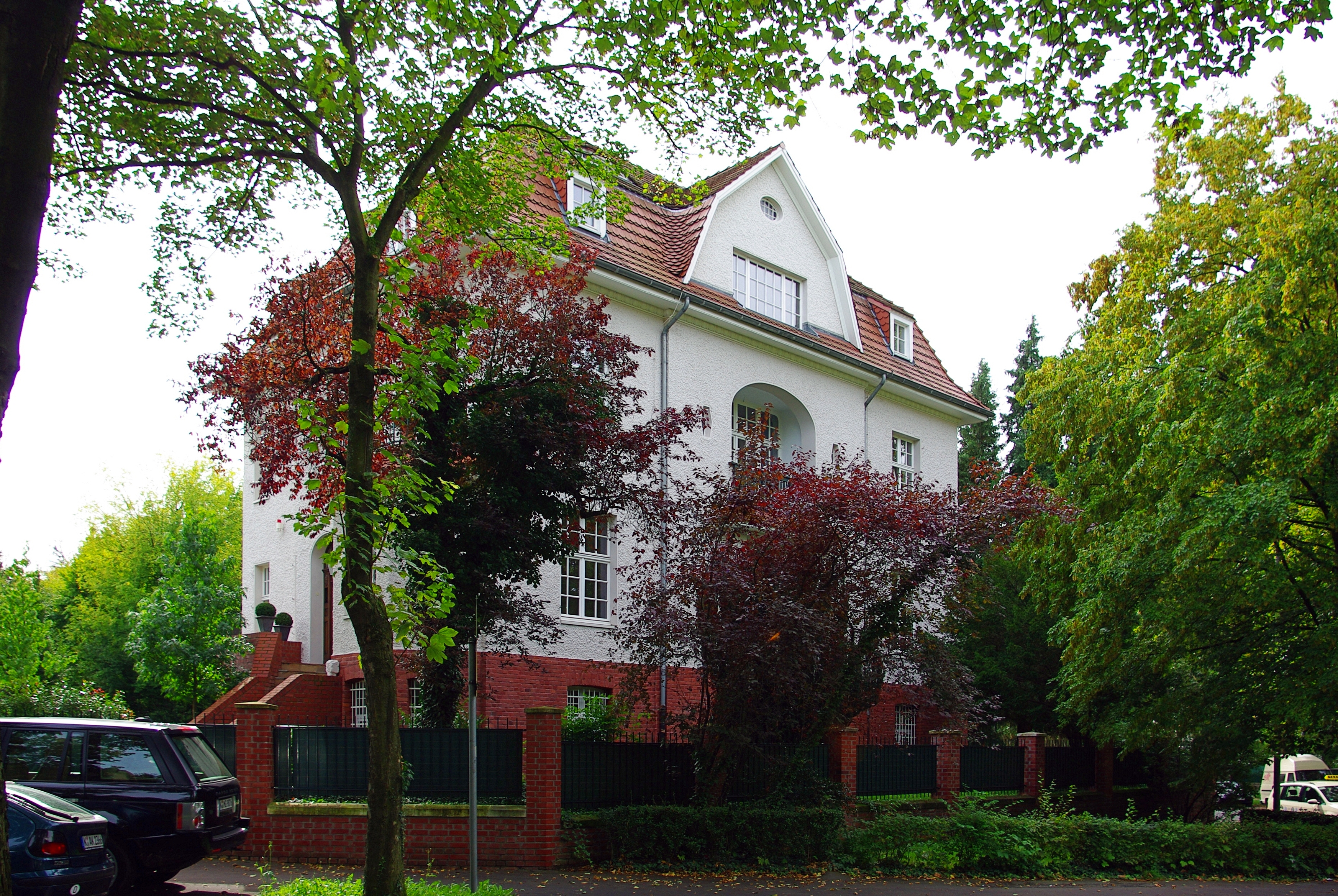 Unter den Ulmen 96, Cologne-Marienburg